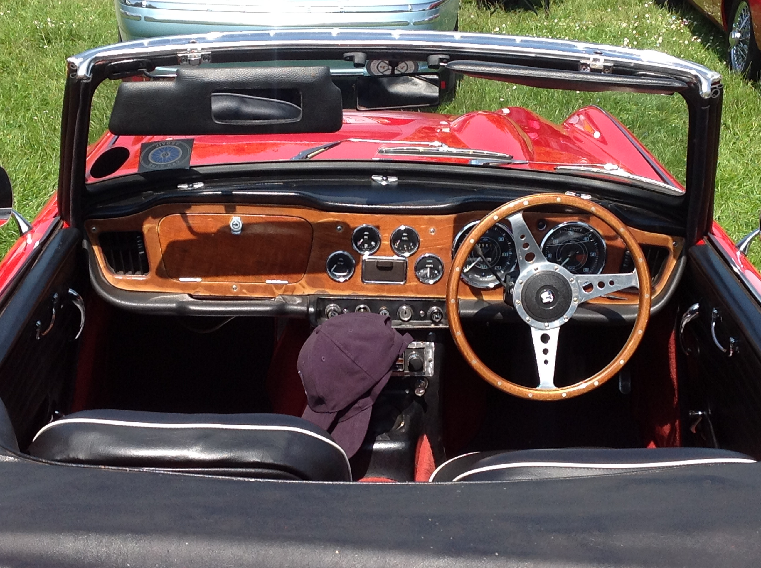 Spotted at Weymouth Vehicle Preservation Society's "Dorset Tour" on 29 May 2016.